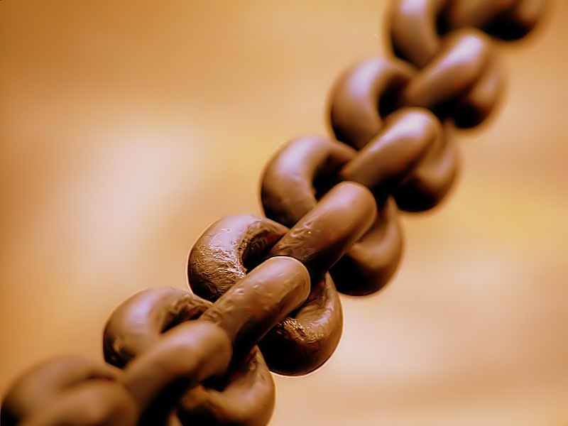 Broad iron chain